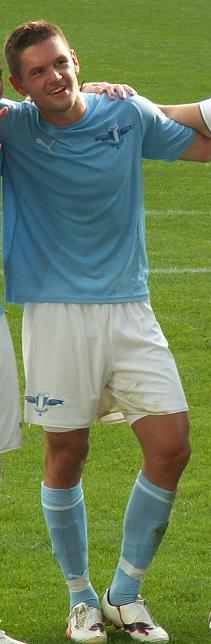 Ivo Pekalski of Malmö FF